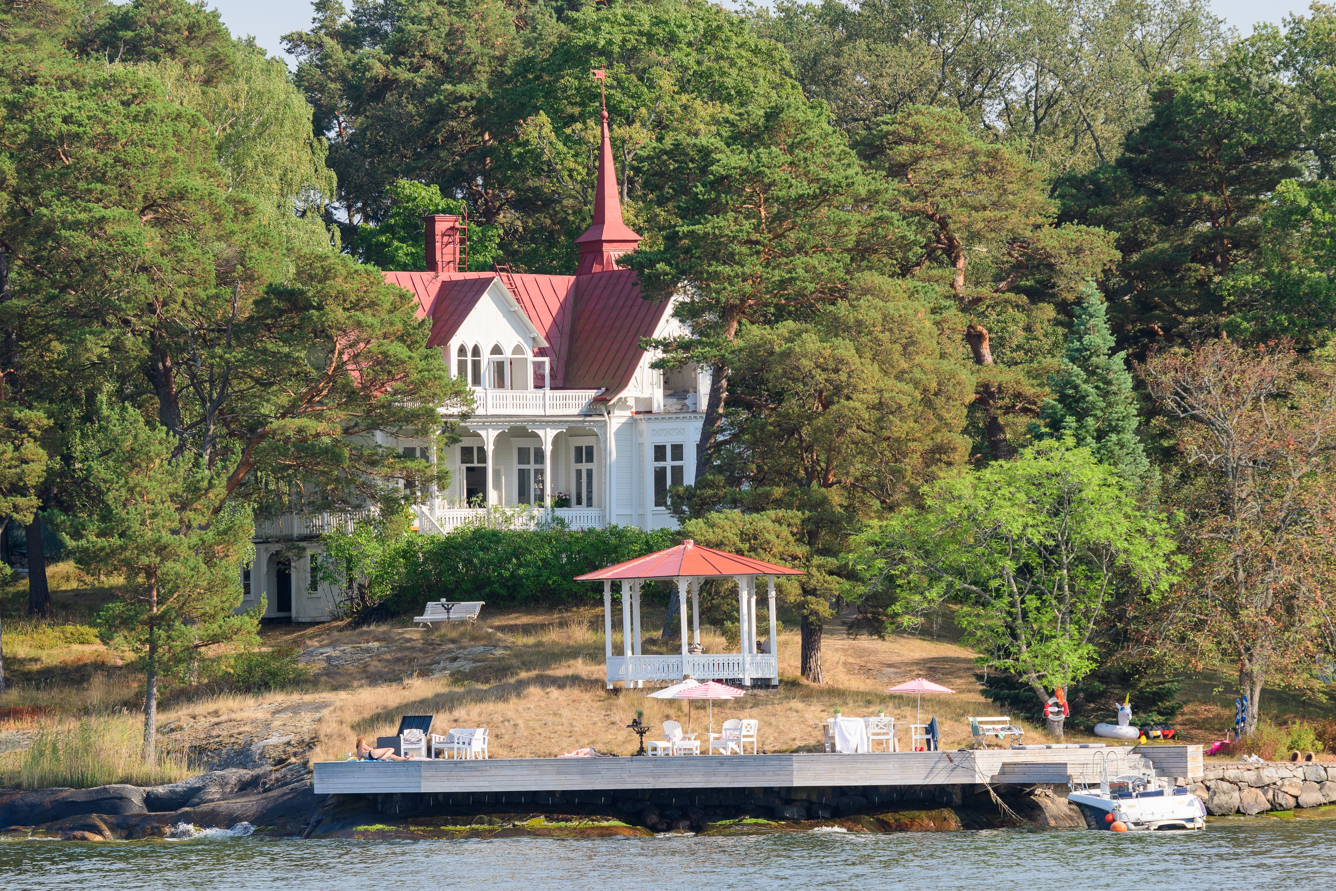 Villa Ottarsberg at the island Edlunda in Stockholm Archipelago.